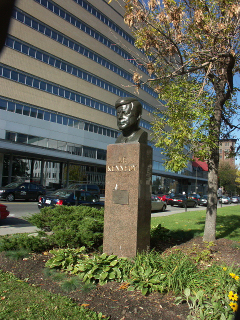 UQAM Président-Kennedy building, Montreal. Photo by: User:Gene.arboit